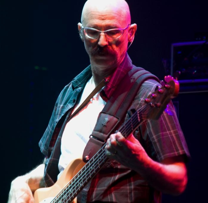 Tony Levin onstage with Liquid Tension Experiment, Nearfest 2008.